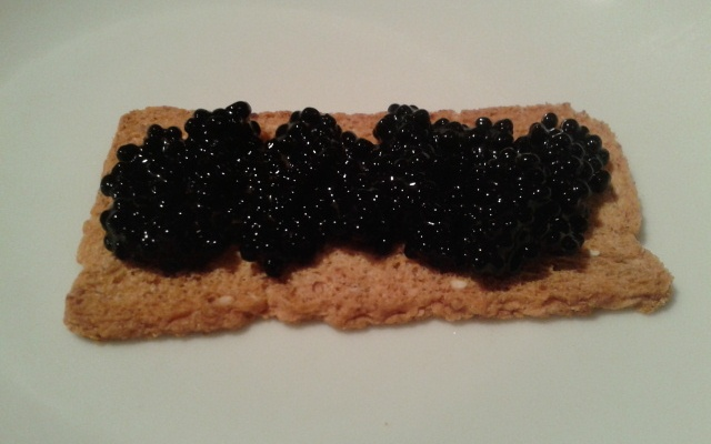 Vegetarian caviar, made from the algae species Laminaria hyperborea (on whole-wheat melba toast).